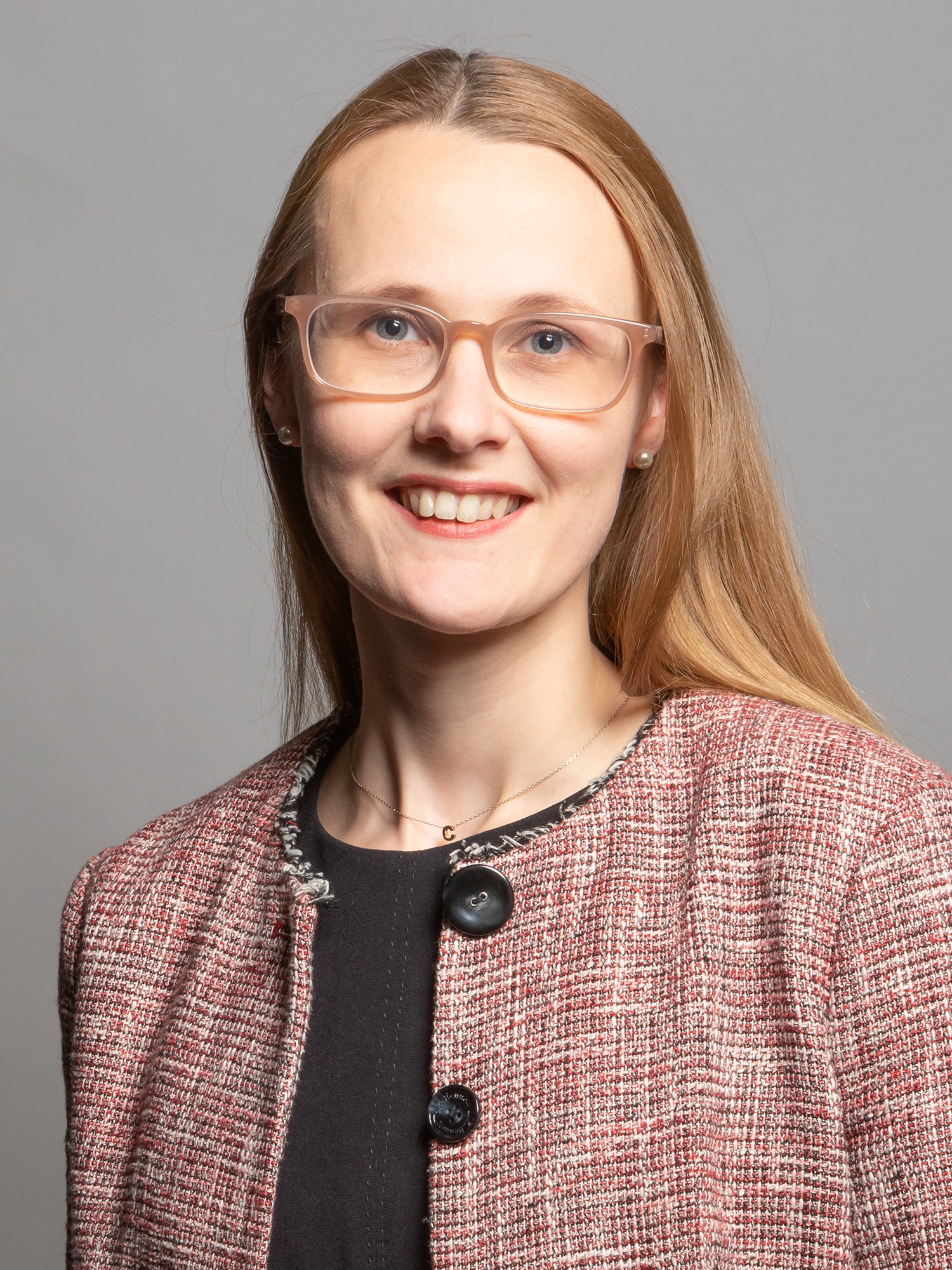 Official portrait of Cat Smith MP 3×4 portrait of Cat Smith